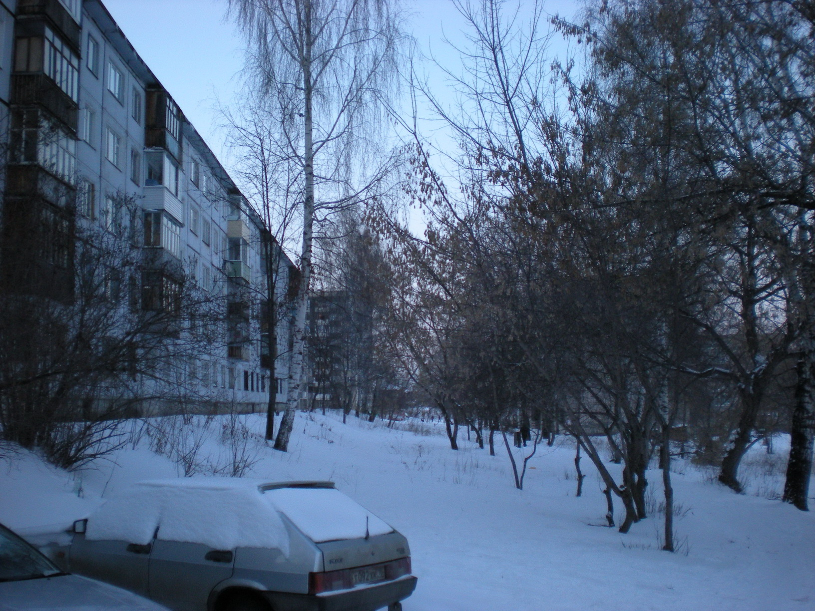 Dinamovskaya Street in Izhevsk (Udmurtia) Удмурт: Динамовской урам Иж карын (Удмуртия)